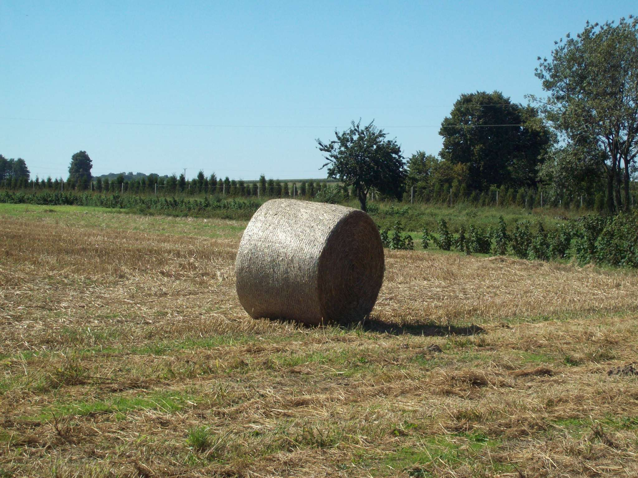 Bale of hay in the field